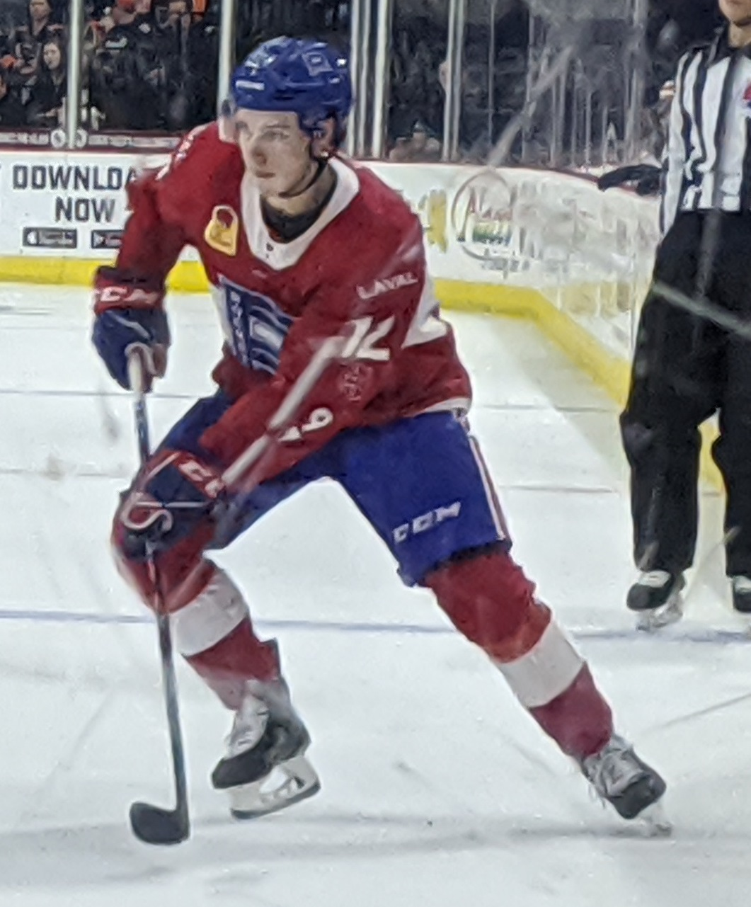 Lukas Vejdemo, a forward with the Laval Rocket ice hockey team, at the PPL Center in Allentown, Pennsylvania, on January 11, 2020.